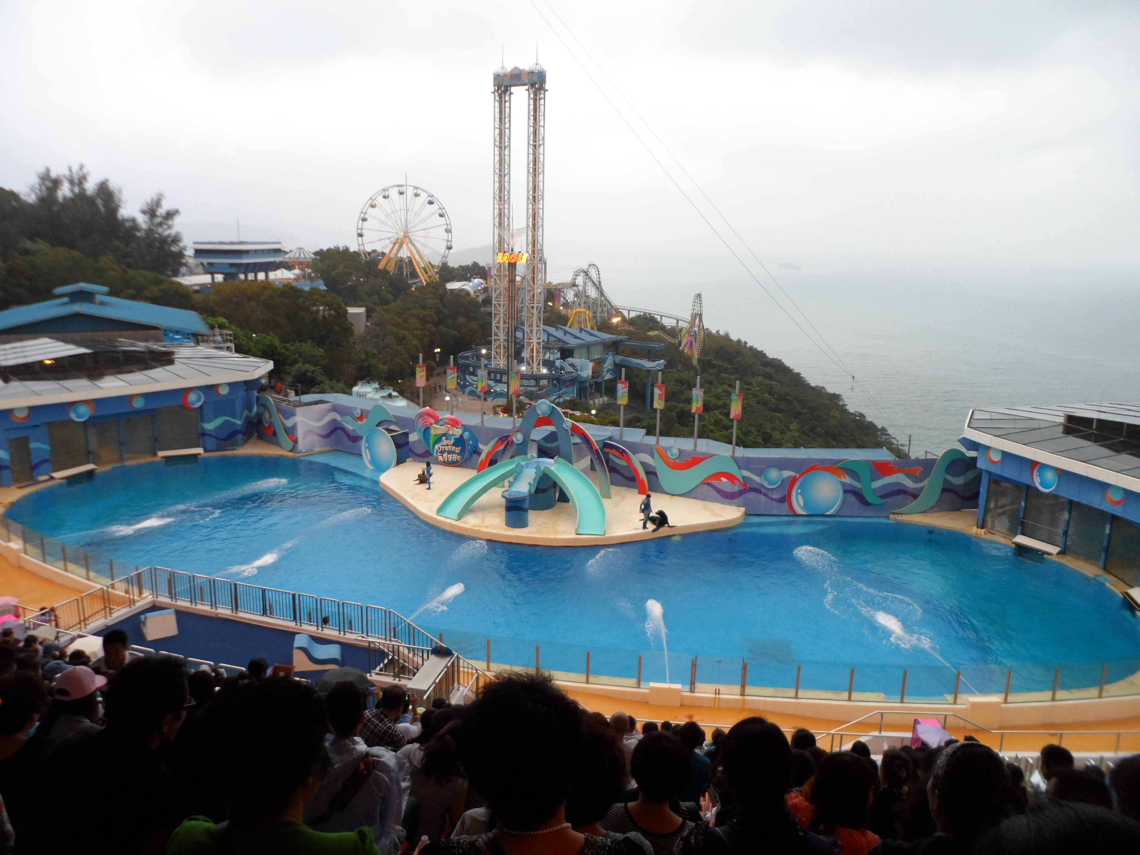 HK Ocean Park